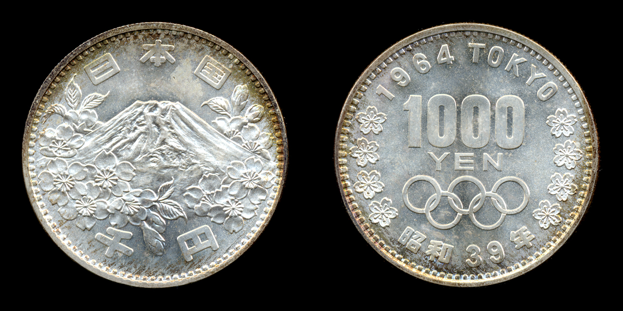 1000yen-S39(1964)-Olympic-Tokyo